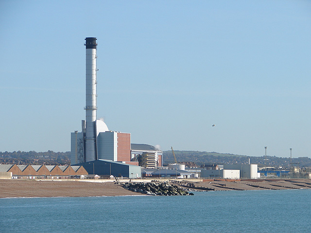 Shoreham Harbour Gas-fired Power Station Viewed From The East Breakwater